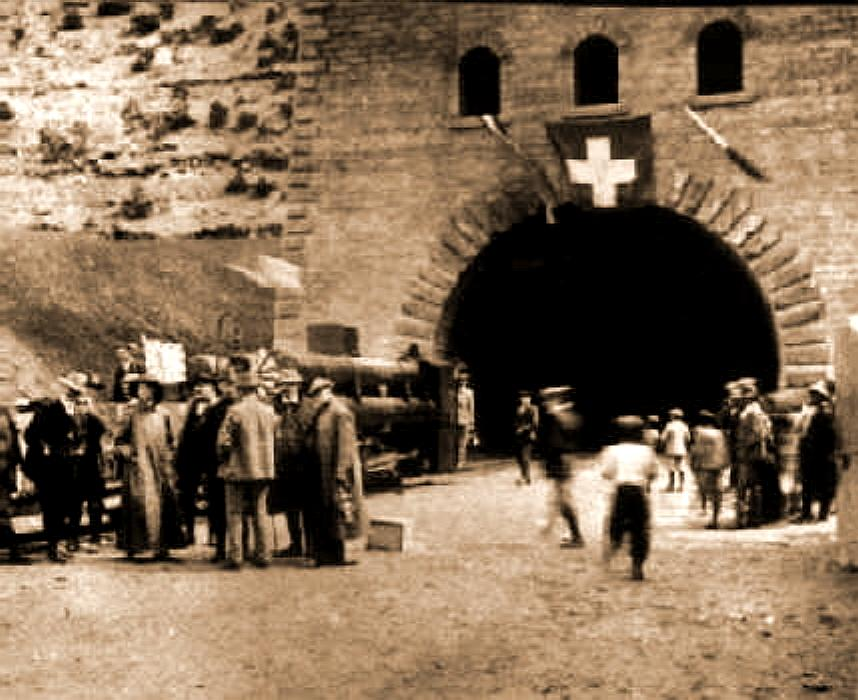 Lötschberg rail Tunnel